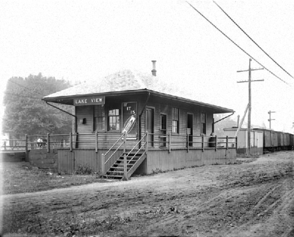 The Lake View Erie Railroad station on the main line in Lake View, New York.